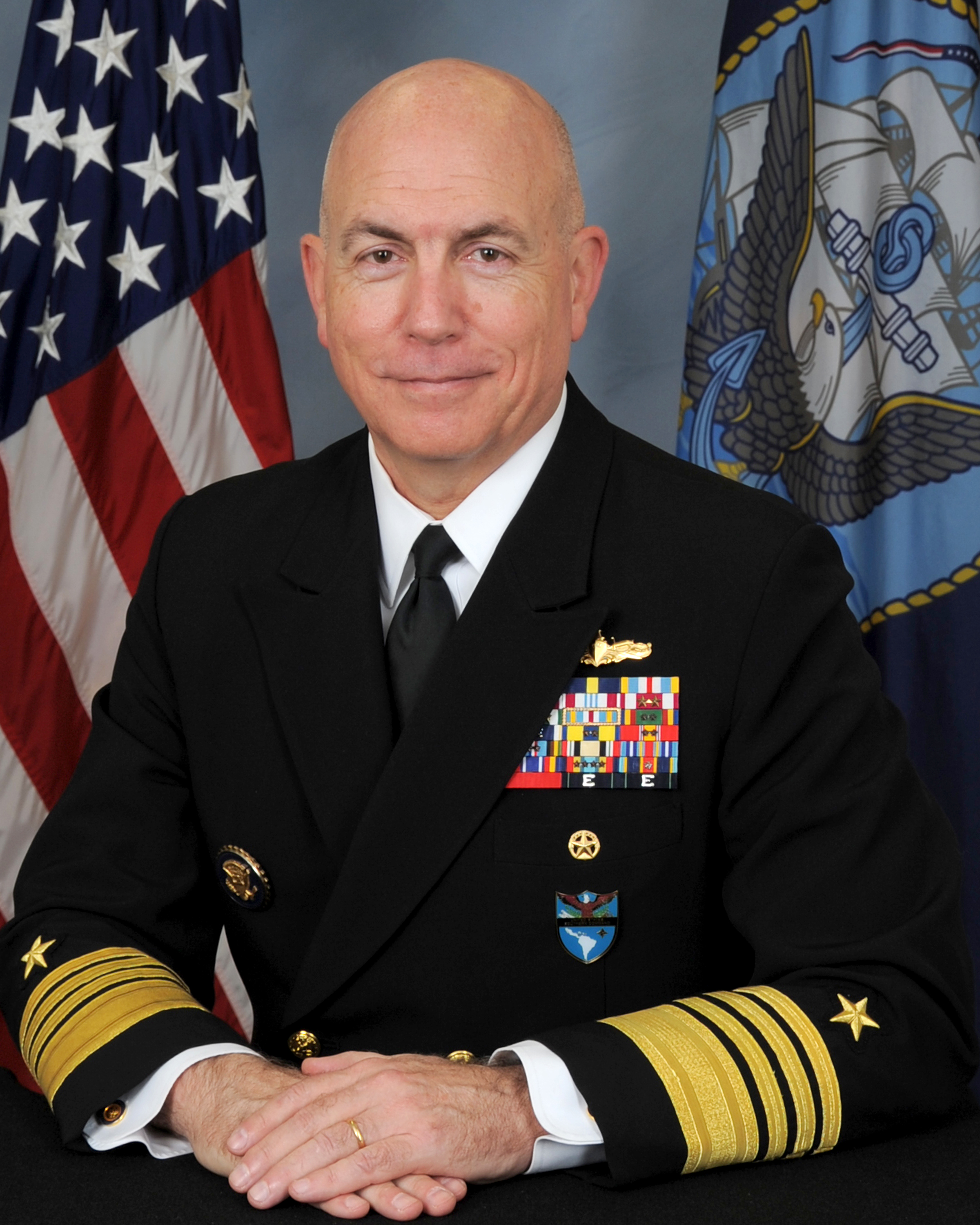 Admiral Kurt W. Tidd, USNCommander, U.S. Southern Command